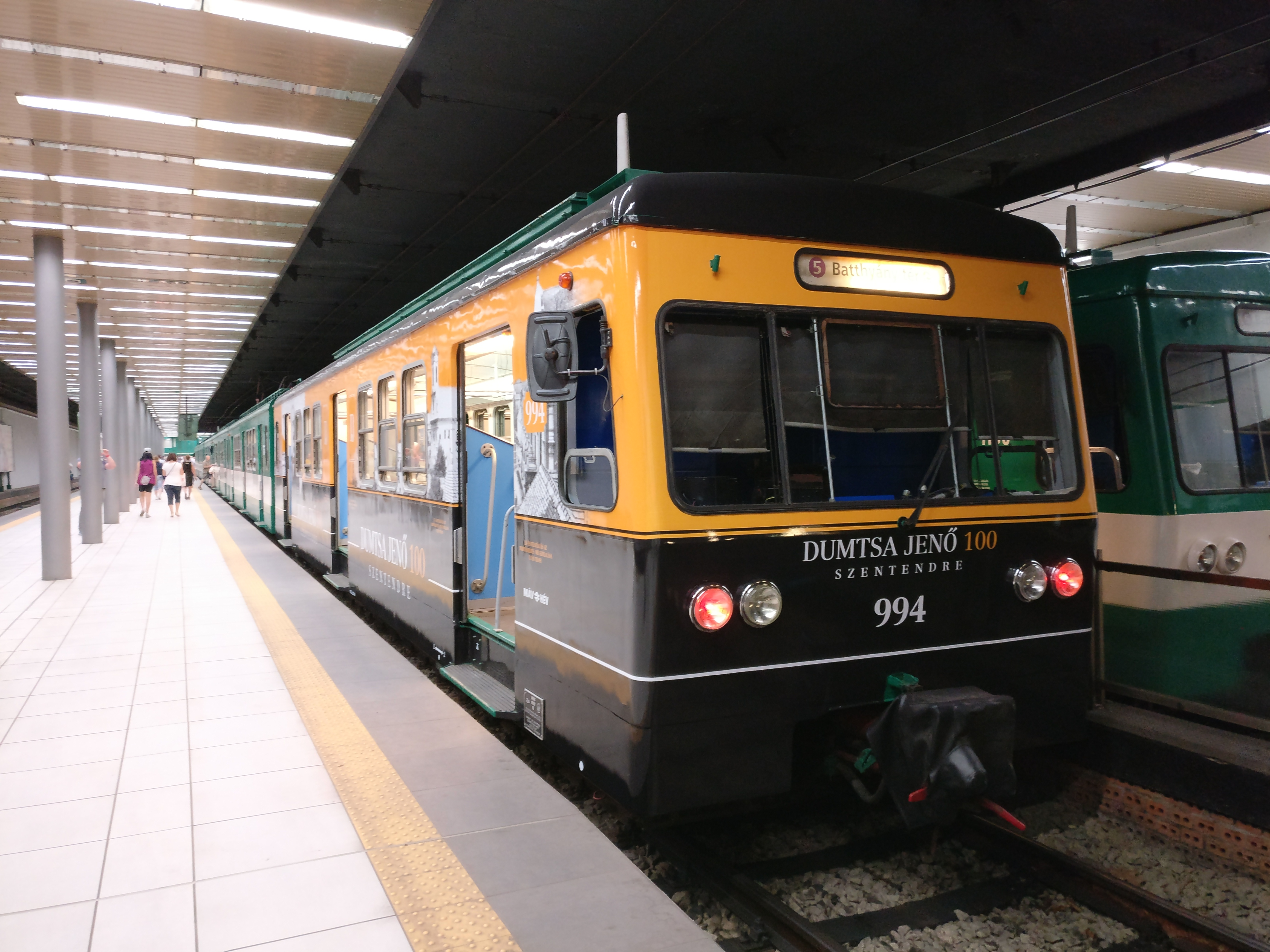 Picture of an electric multiple unit of MÁV-HÉV of Budapest, Hungary in special livery to Jenő Dumtsa, mayor of Szentendre